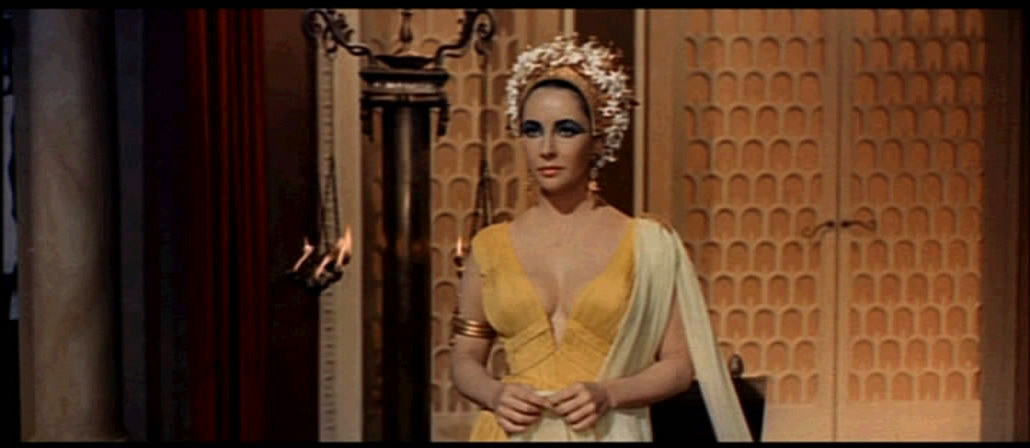 Cropped screenshot of Elizabeth Taylor from the trailer for the film Cleopatra.